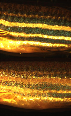 Lateral view of zebrafish body illustrating how chromatophores facilitate a chromatic response to 24 hour exposure to a dark background (top) and light background environment (bottom).